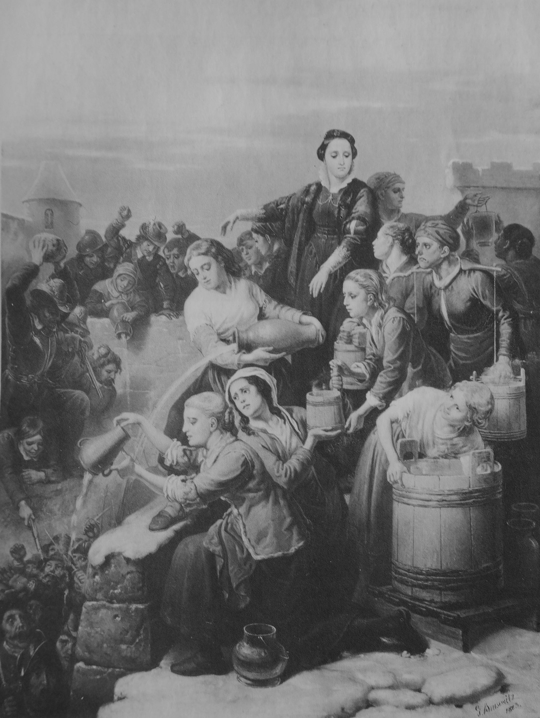 Emerentia Pauli leads the defence of the swedish fortress Gullberg, in january 1612.